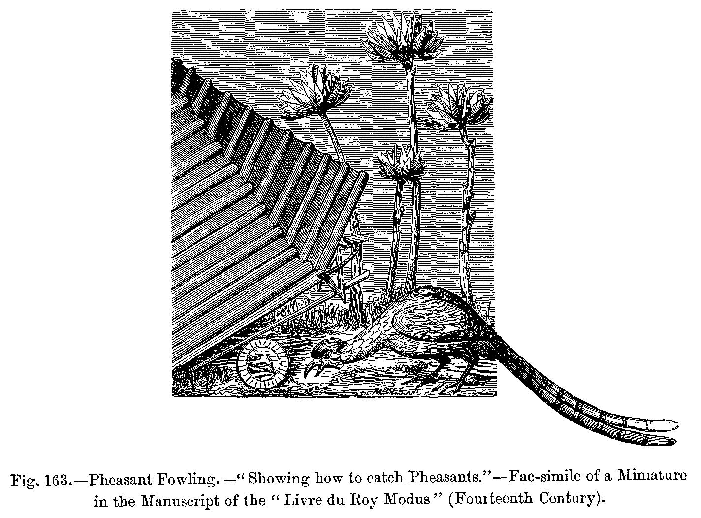 Pheasant Fowling. Showing how to catch Pheasants. Fac simile of a Miniature in the Manuscript of the Livre du Roy Modus. Fourteenth Century.